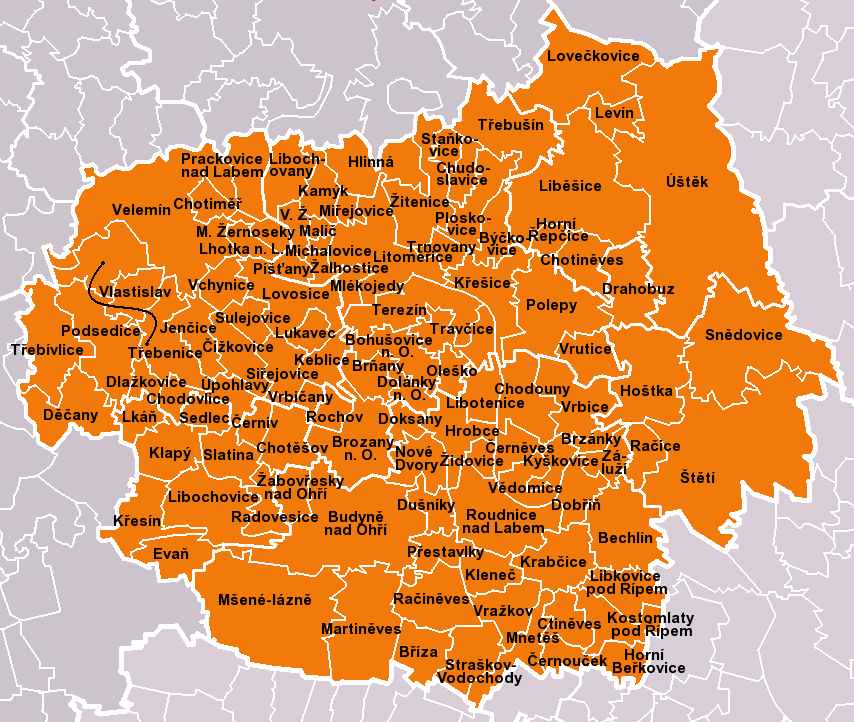 Municipalities of Litoměřice District as of January 1, 2010 (105 municipalities in total). White lines of variable thickness show boundaries of municipalities, administrative areas, districts and regions.